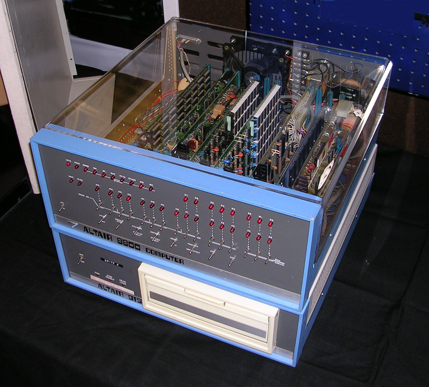 Altair 8800 Computer with 8 inch floppy disk system. Circuit boards - left to right Seals 8K Static RAM board MITS floppy disk controller (2 board set) MITS floppy disk controller MITS 16K Dynamic RAM board MITS 16K Dynamic RAM board MITS SIO-2 Dual serial port board Solid State Music PROM board MITS 8080 CPU board Photo taken at the Vintage Computer Festival 7.0 held at the Computer History Museum, Mountain View California. November 6-7, 2004 [1] This was one of Altair systems exhibited by Erik Klein [2] Photo by Michael Holley, November 7, 2004 Nikon E3200 with on camera flash. Touched up in Adobe Photoshop Elements 3.0.